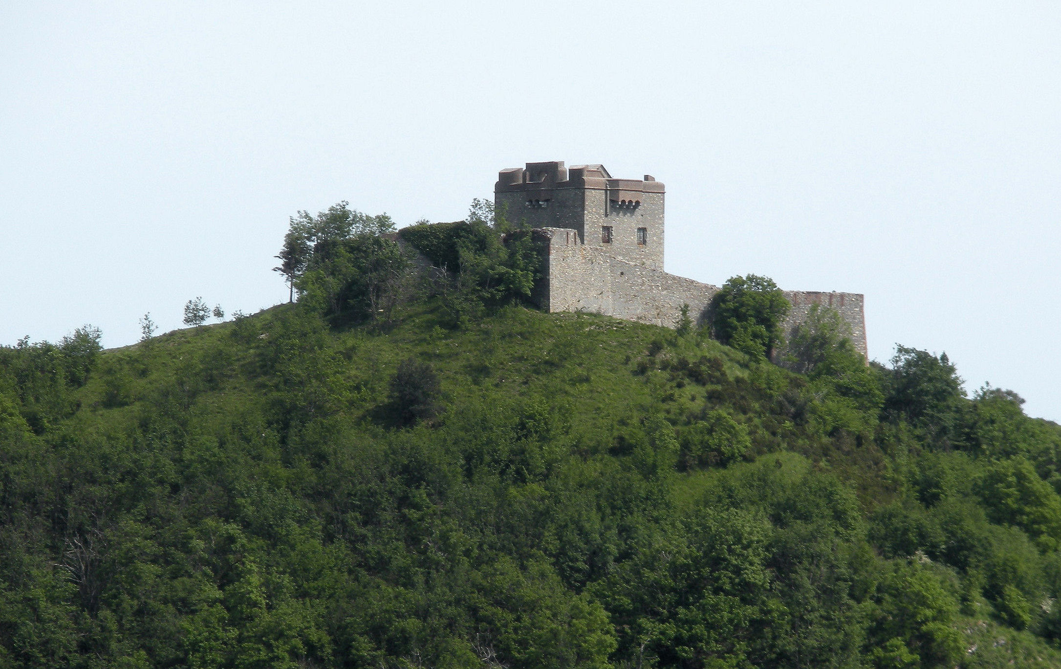 View of Fort Puin (Genova)